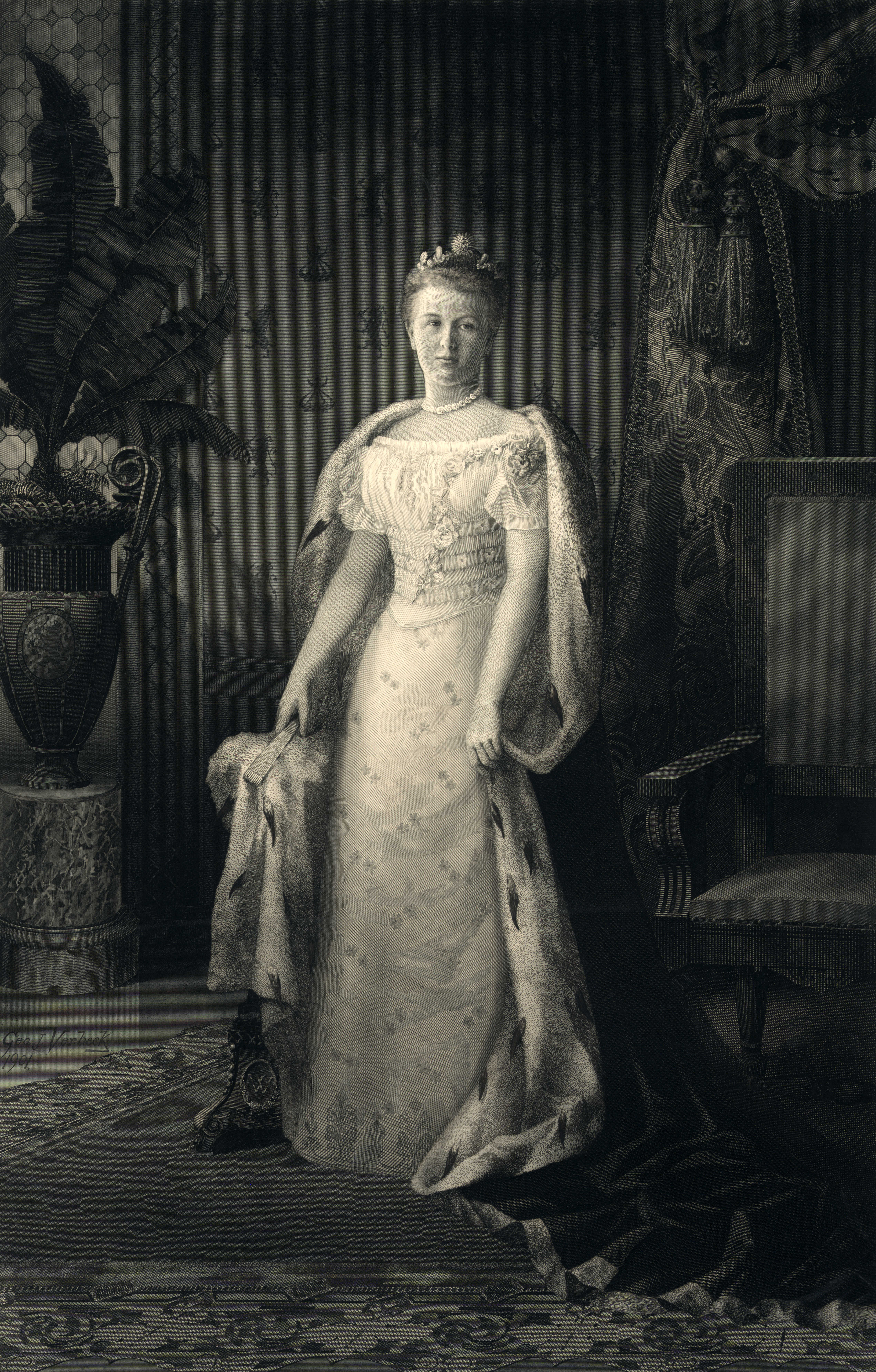 Portrait of Queen Wilhelmina of the Netherlands, 1901. Etching by George J. Verbeck (American, 1849-1922) after an 1898 painting of Wilhelmina in her coronation robe by Thérèse van Duyl Schwarze. The painting is currently held in the Fraeylemaborg, who kindly identified the artist when I sent them an email.